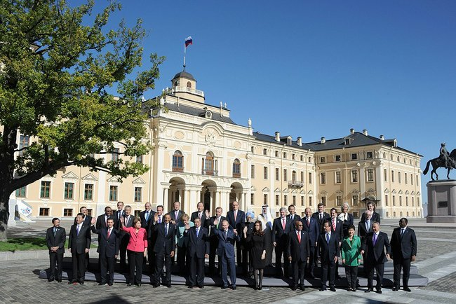 2013 G-20 Saint Petersburg summit